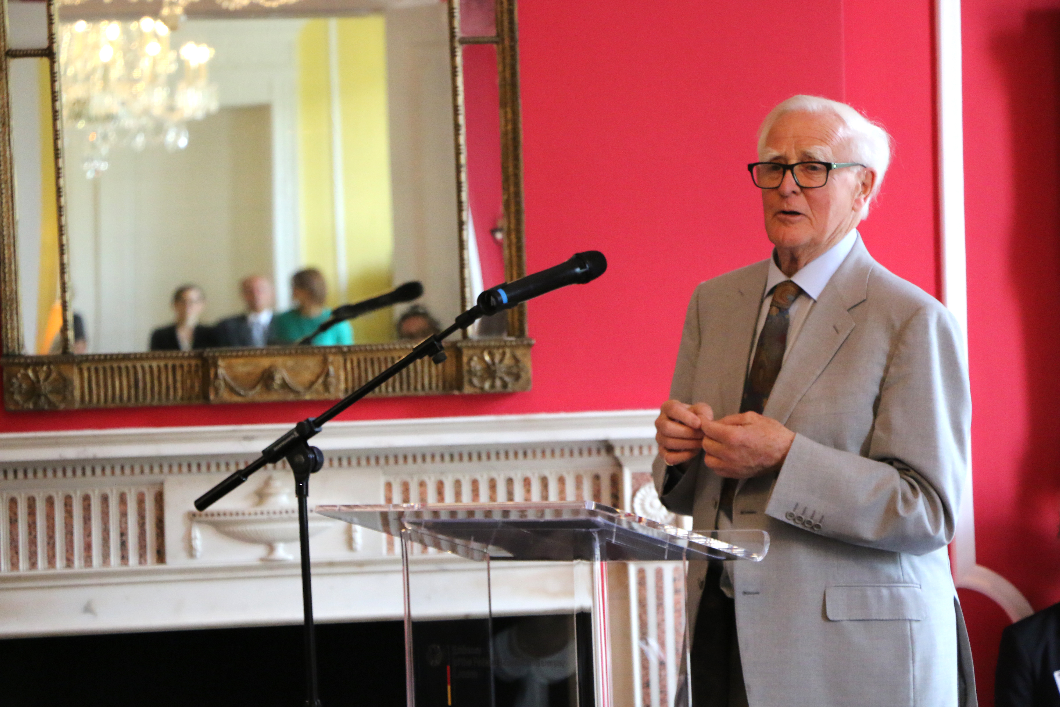 John le Carré giving his thrilling keynote speech